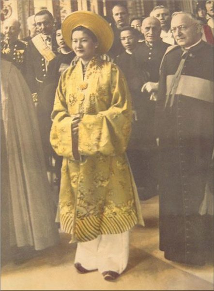 Photograph of Vietnam's Empress